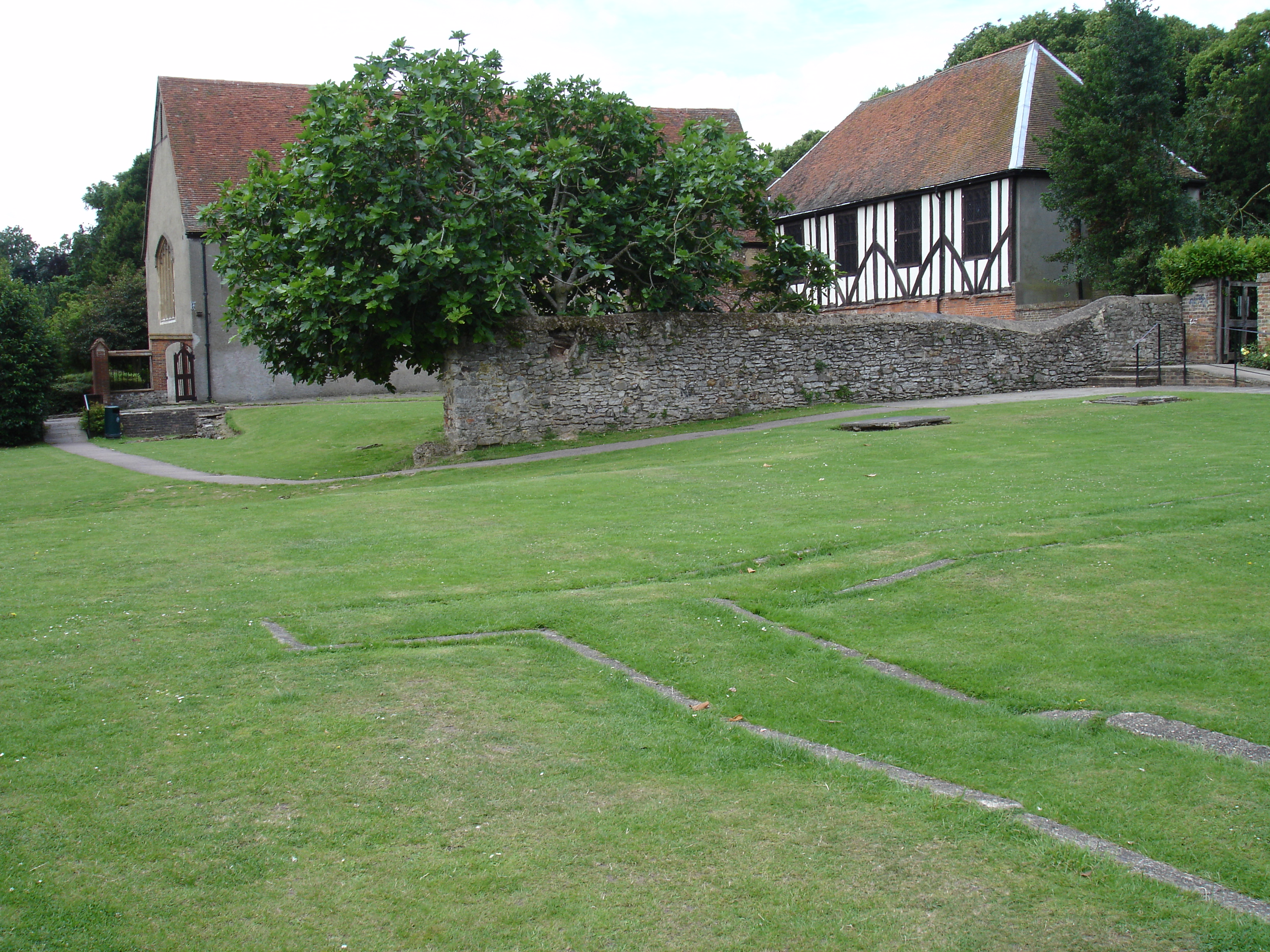 The site of the former Cluniac Priory Church, Prittlewell, Southend-on-Sea, Essex, England